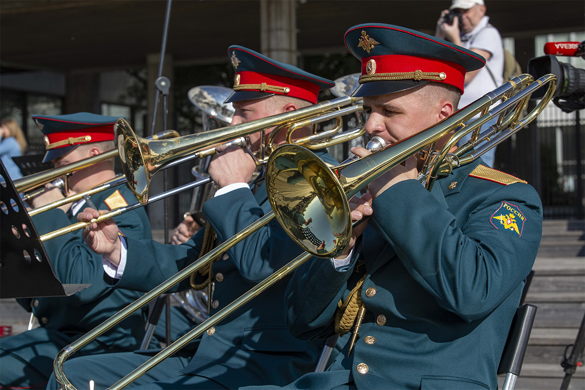 Orchestra of the Military University of the Ministry of Defense of RF.